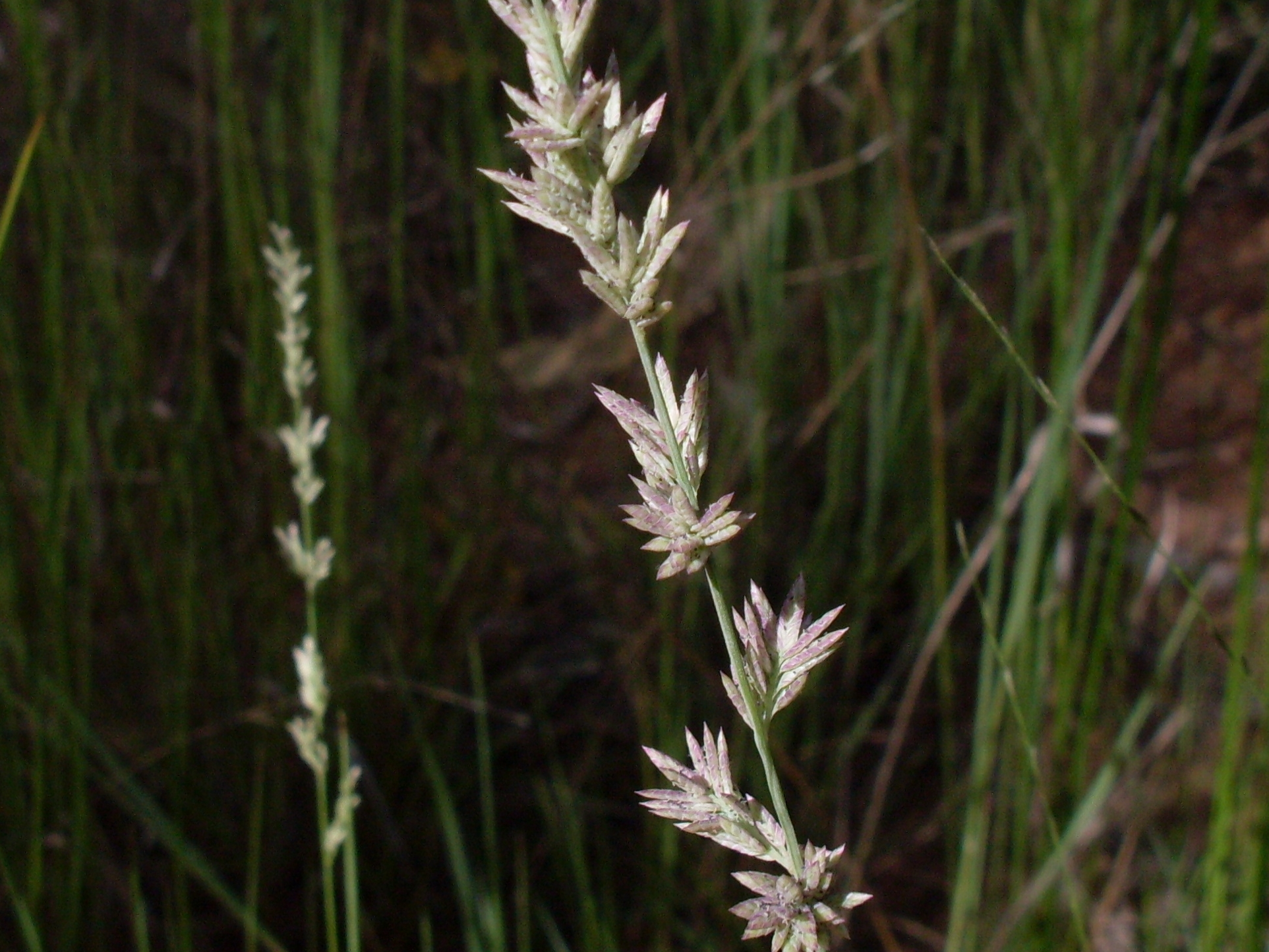 Clustered Lovegrass, Eragrostis elongata. Pilliga Forest, NSW Australia, January 2009. Thanks to Harry for the confirmation.